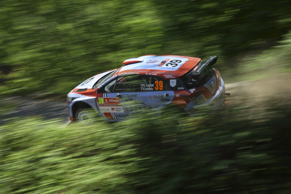 Stage of Ponte de Lima.